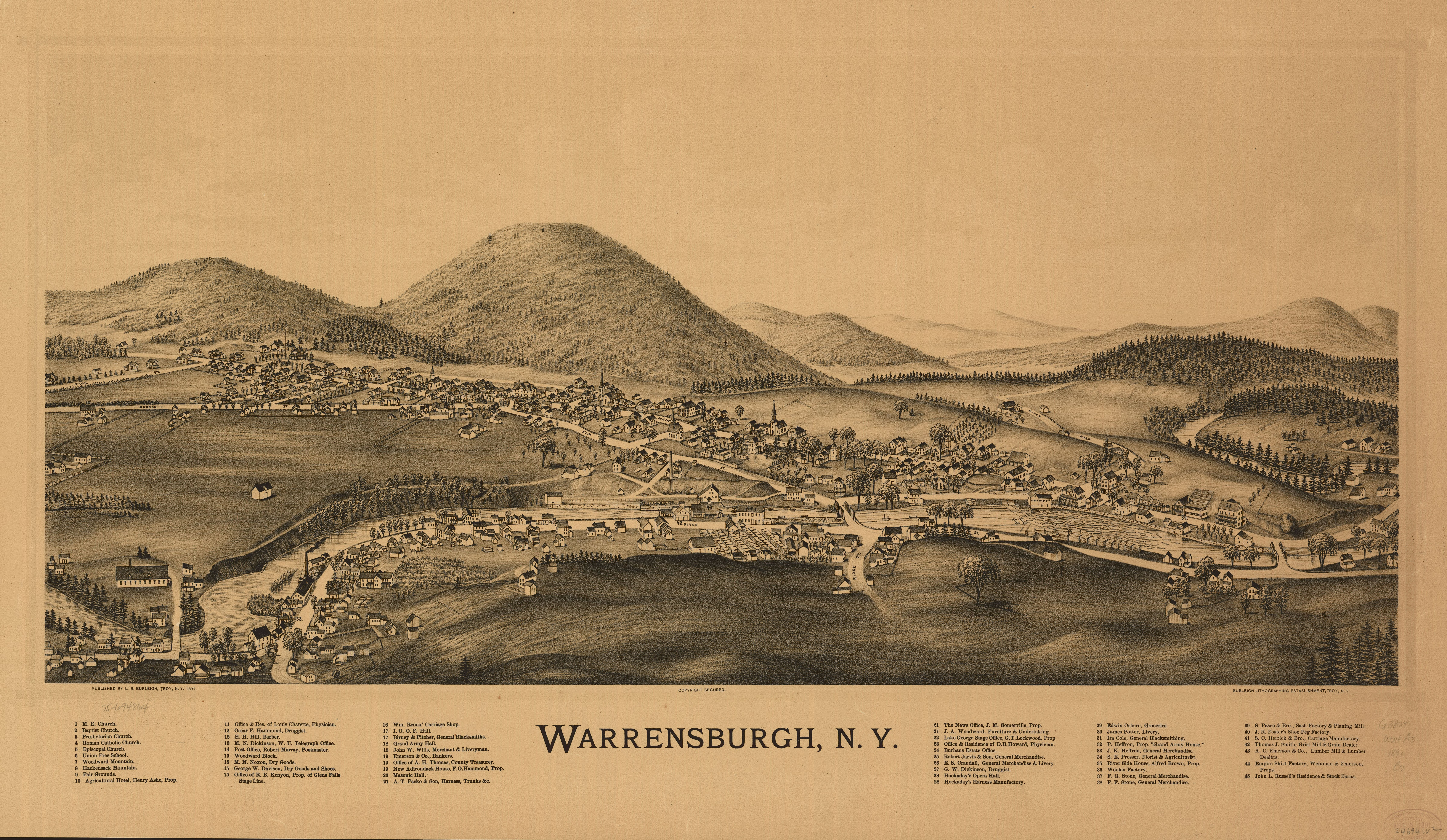 Perspective map not drawn to scale. Bird's-eye-view. LC Panoramic maps (2nd ed.), 649 Available also through the Library of Congress Web site as a raster image. Indexed for points of interest. AACR2